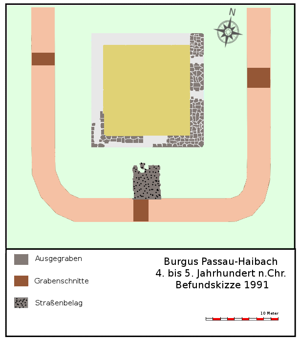 Plan late roman turret in Passau-Haibach (Germany), 1991.